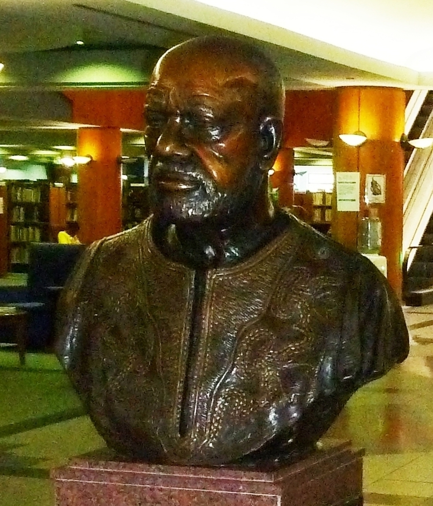 Bust of Es'kia Mphahlele by sculptor Angus Taylor, displayed in the Es'kia Mphahlele community library, Sammy Marks Center, Pretoria